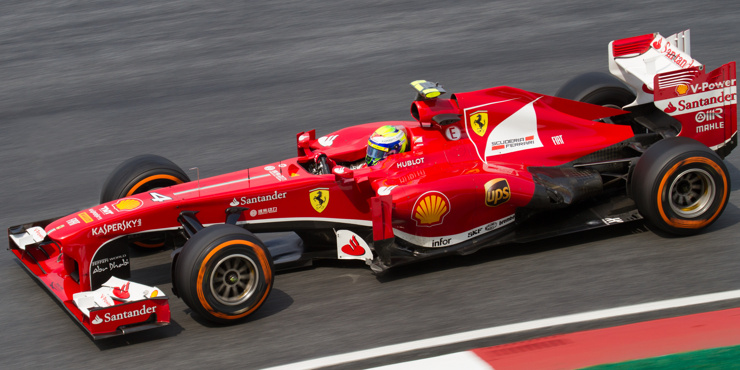 Formula One 2013 Rd.2 Malaysian GP: Felipe Massa (Scuderia Ferrari) during the second practice session on Friday.